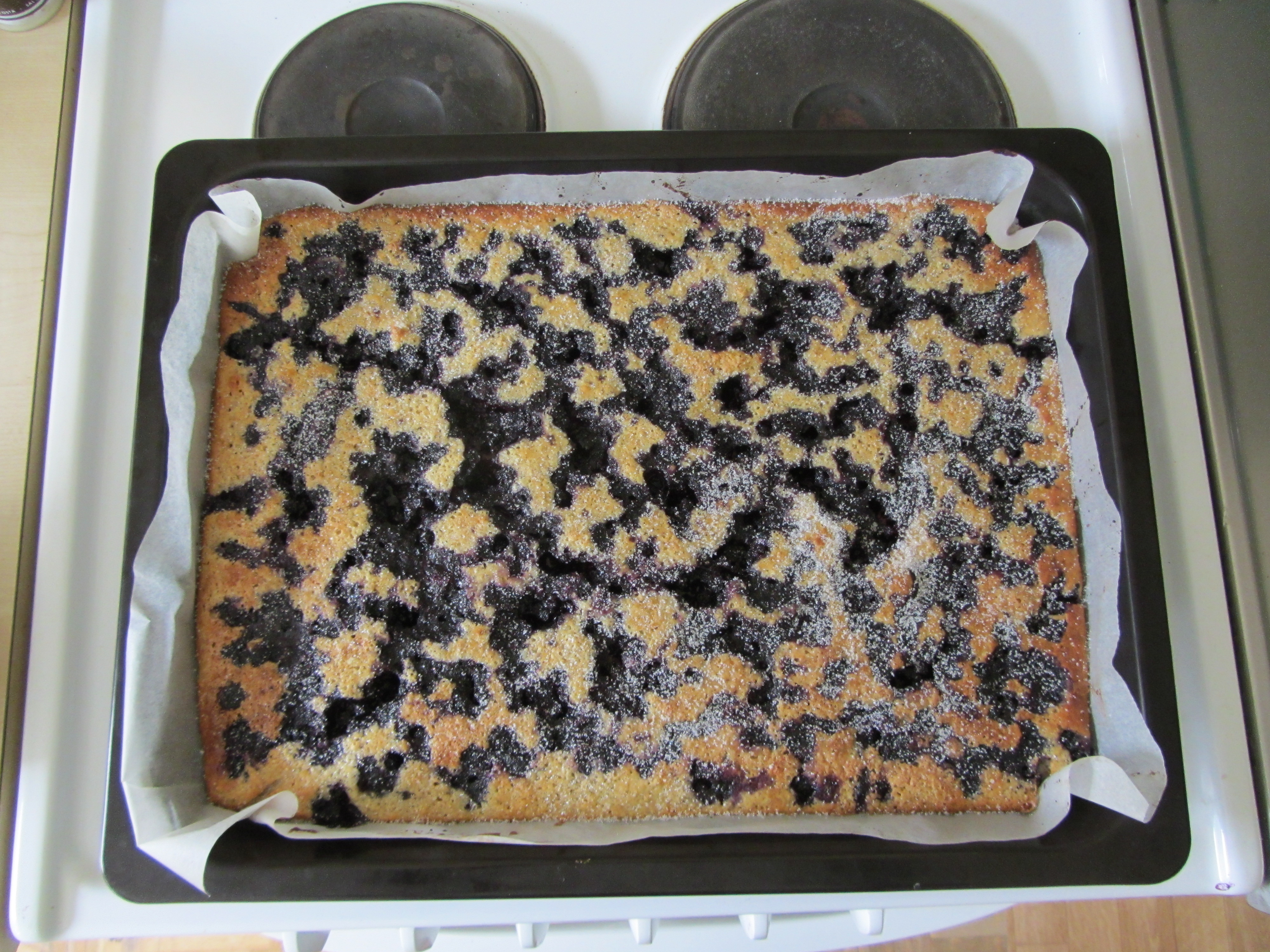 Blueberry or bilberry pie out of the oven